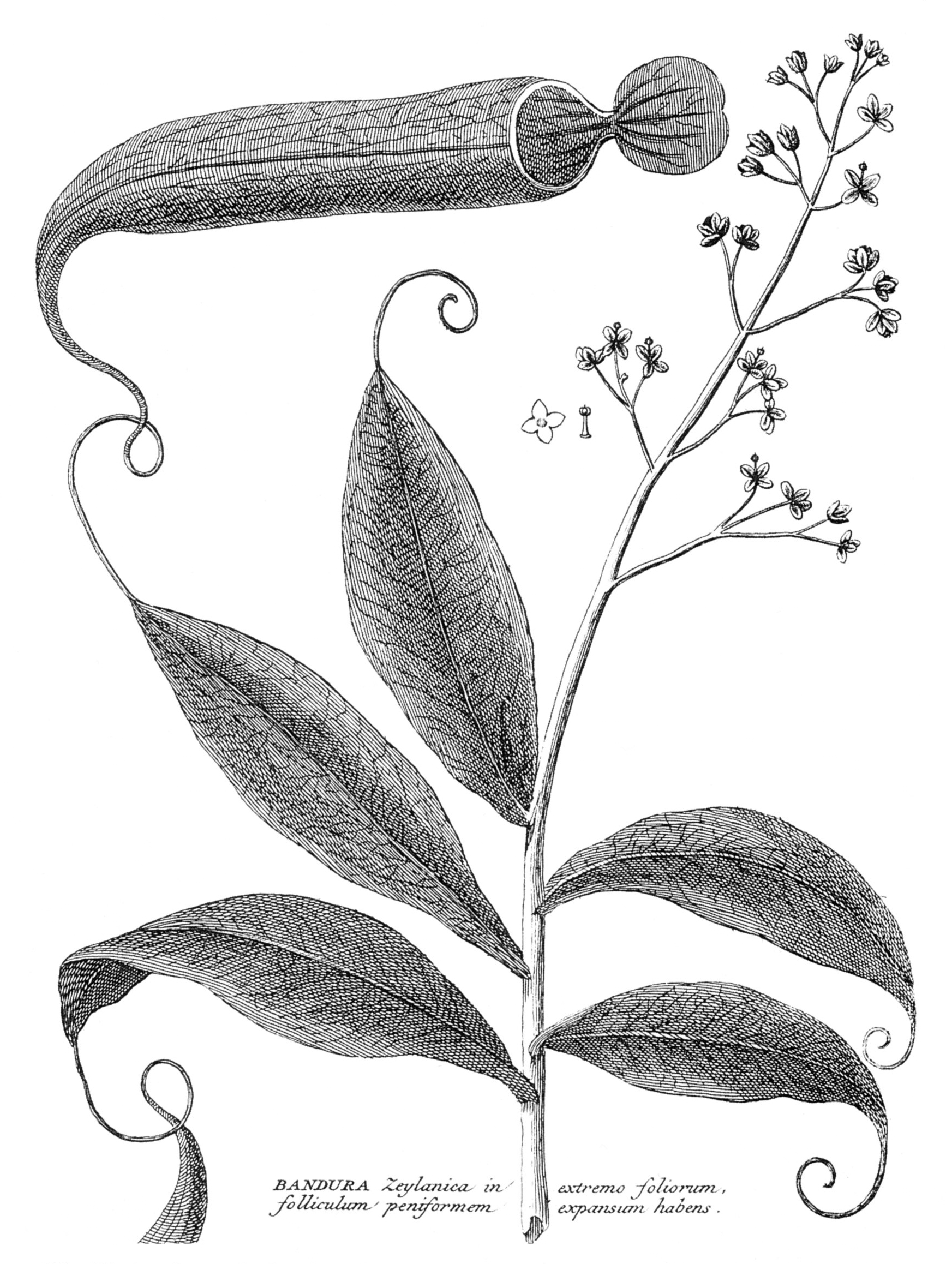 Bandura zeylanica (=Nepenthes distillatoria) from Burmann's Thesaurus Zeylanicus of 1737.